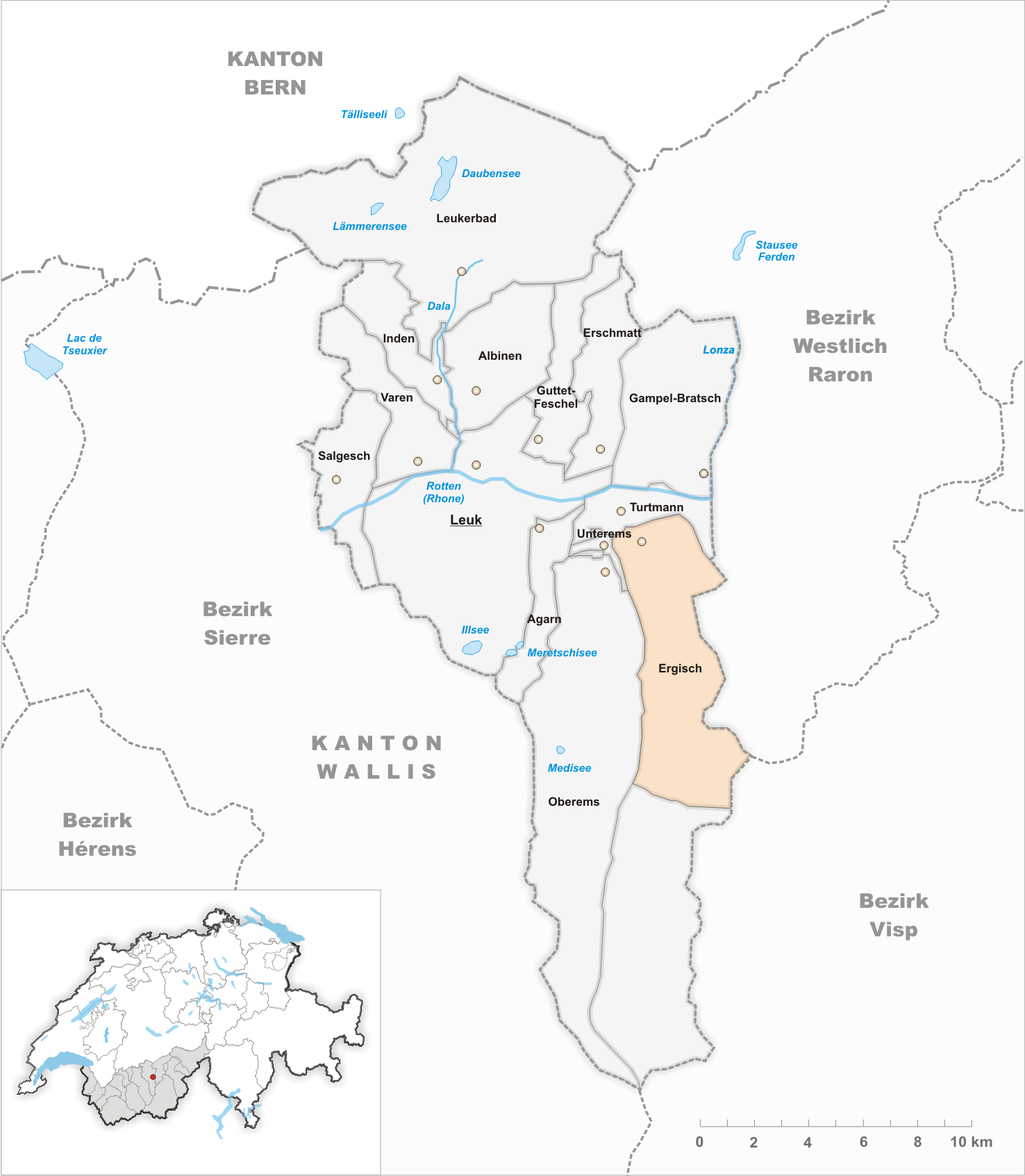 Municipality Ergisch